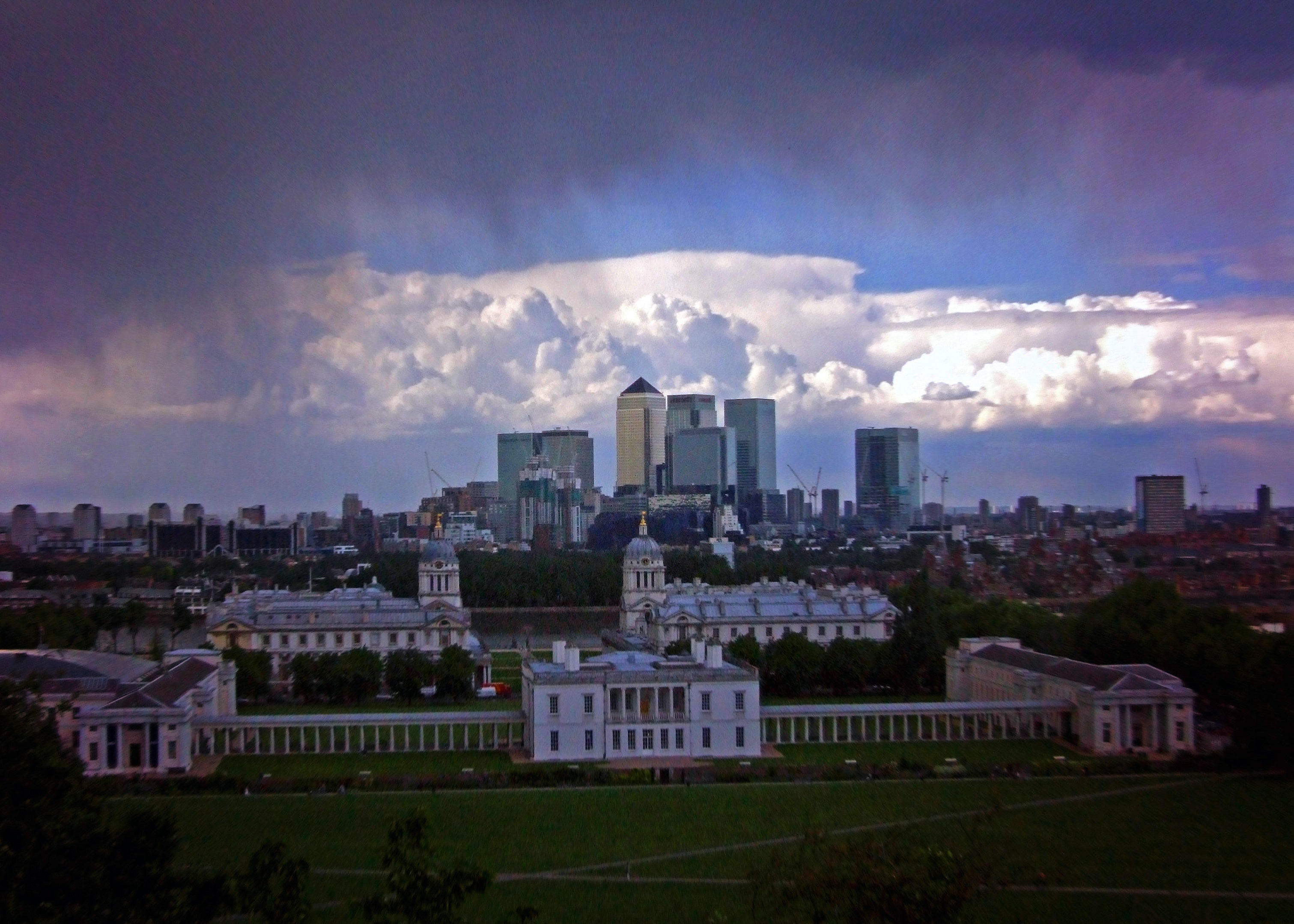 Rain over London